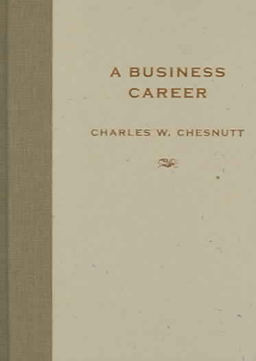 Cover of the hardcover first edition of A Business Career